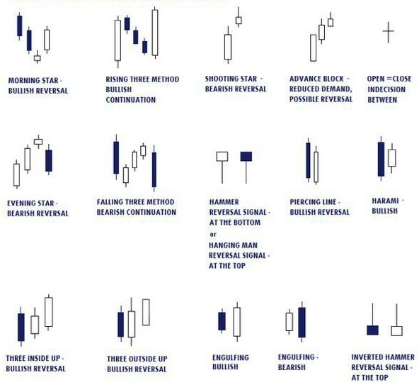 easylivetrade candlestick pattern technical analysis